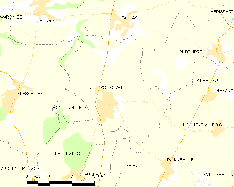 Map of French municipality Villers-Bocage